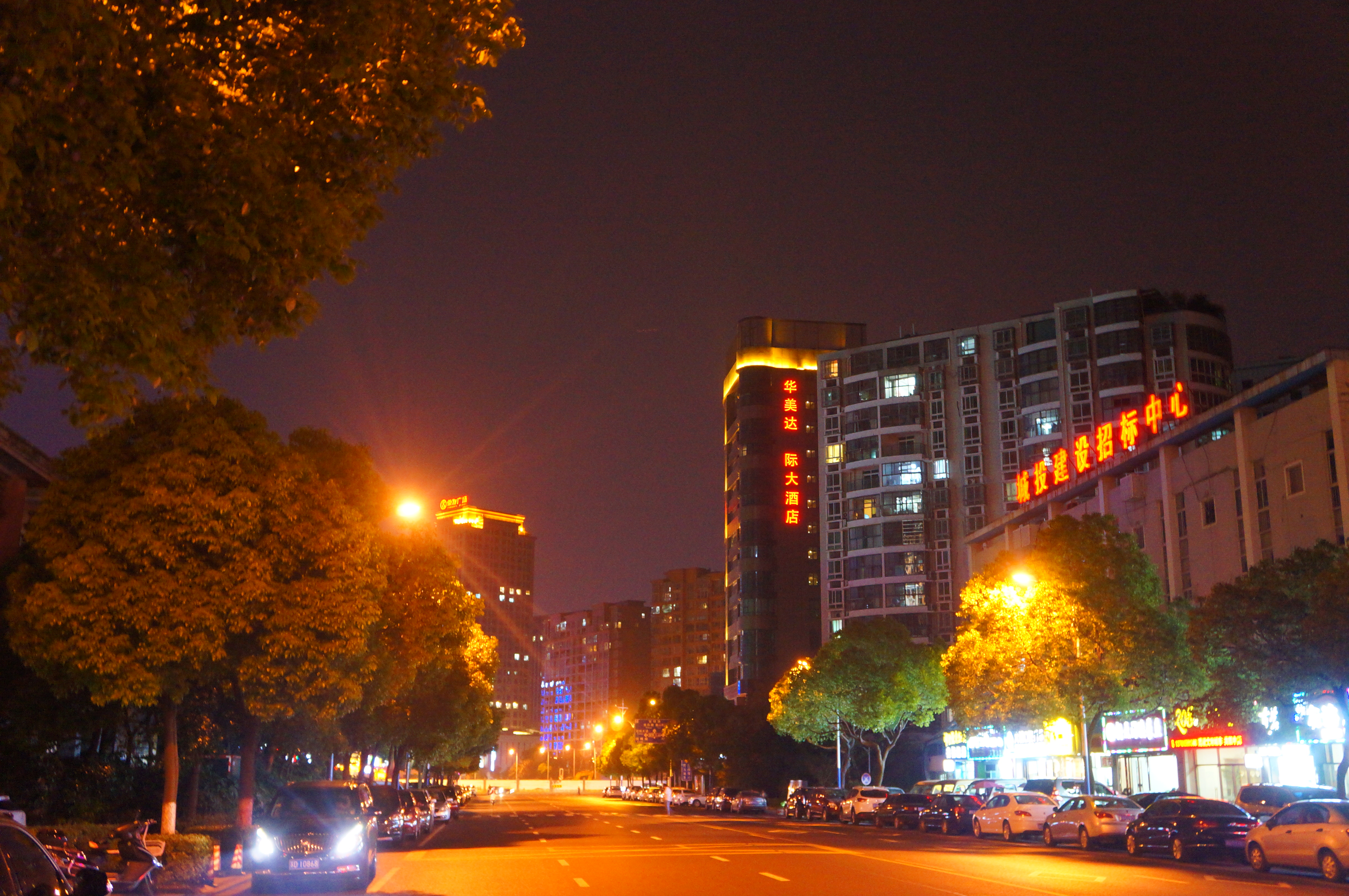 Waiting the car took me to Wuxi. Sanjing Area in Changzhou is always called as "Olympics".